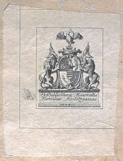 Nostitz family library mark. They kept the manuscript of Copernicus' De Revolutionibus for 300 years